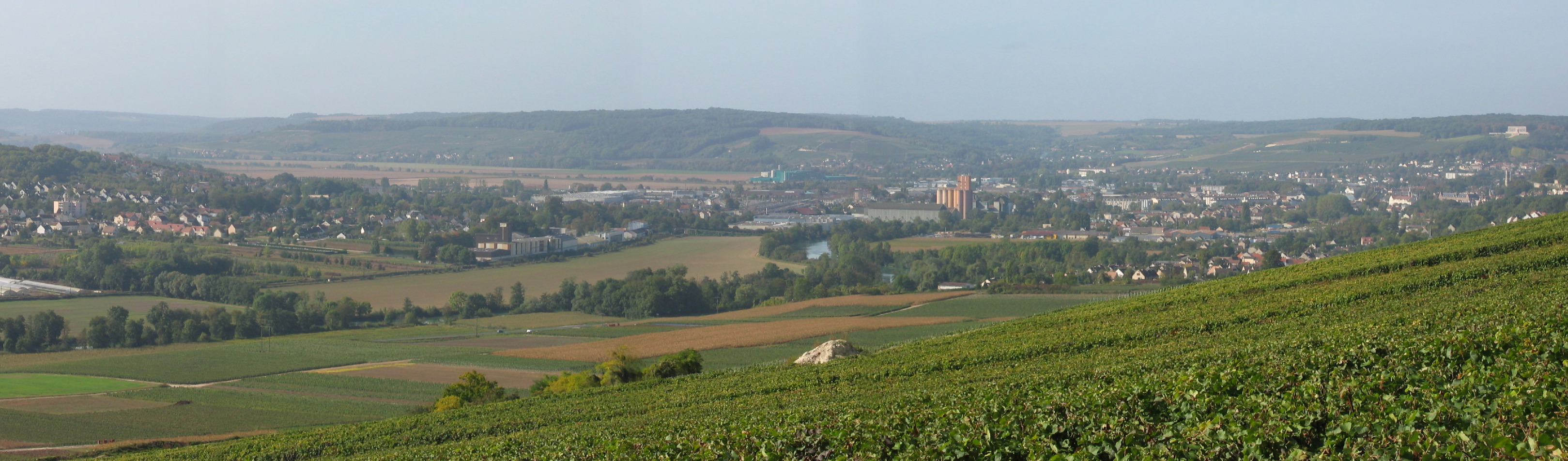 Panorama of the Marne valley with view of the city of Château-Thierry. Built from different photos.